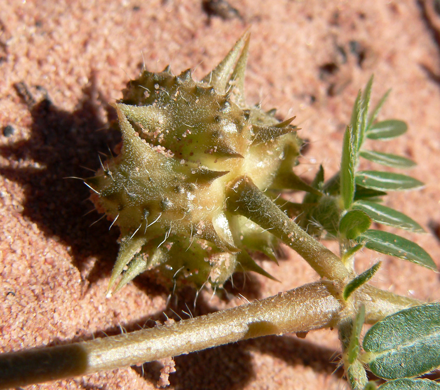 Tribulus terrestris at Red Spring, Calico Basin, Red Rock Canyon, southern Nevada